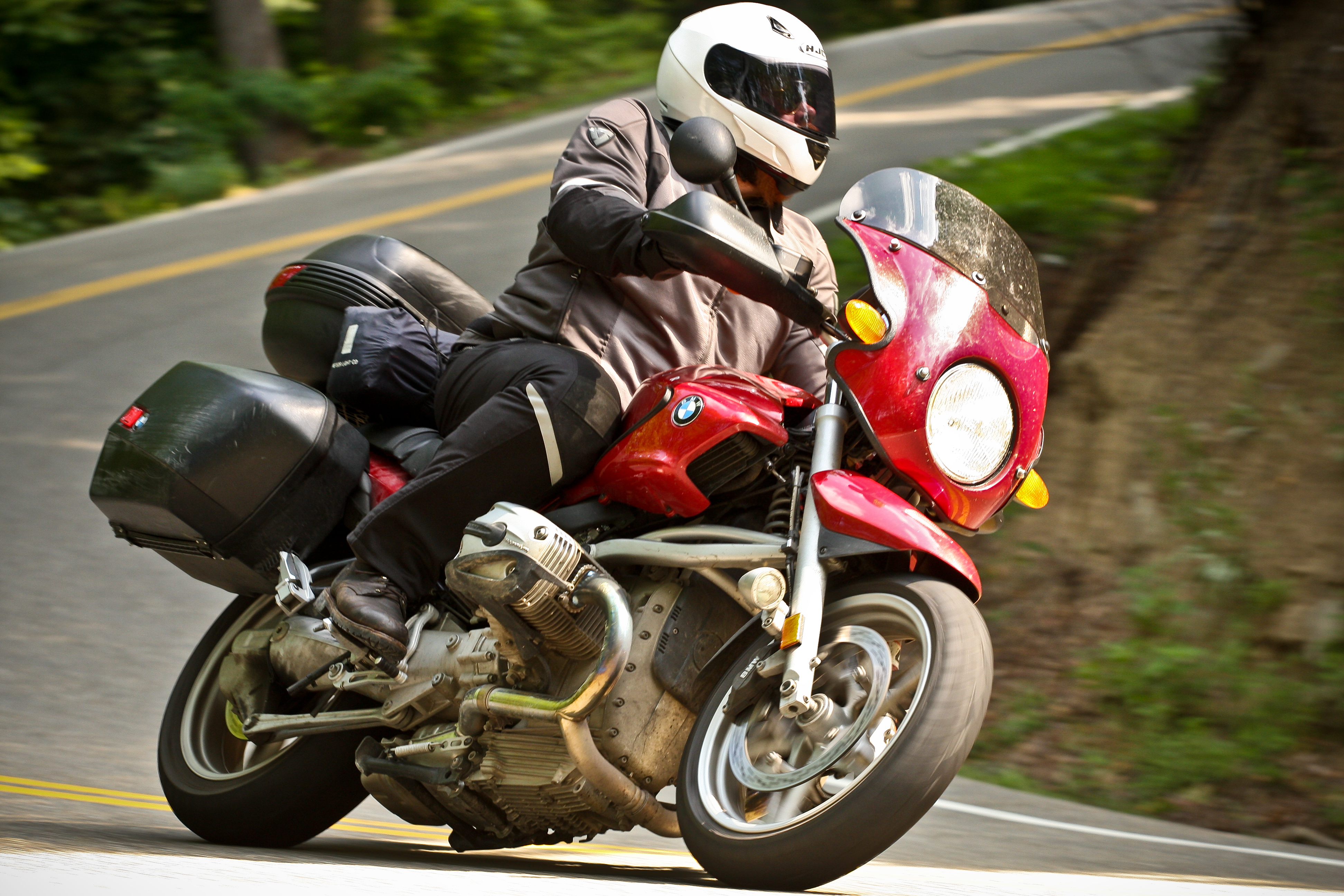 on the dragon's tail. care of killboy.